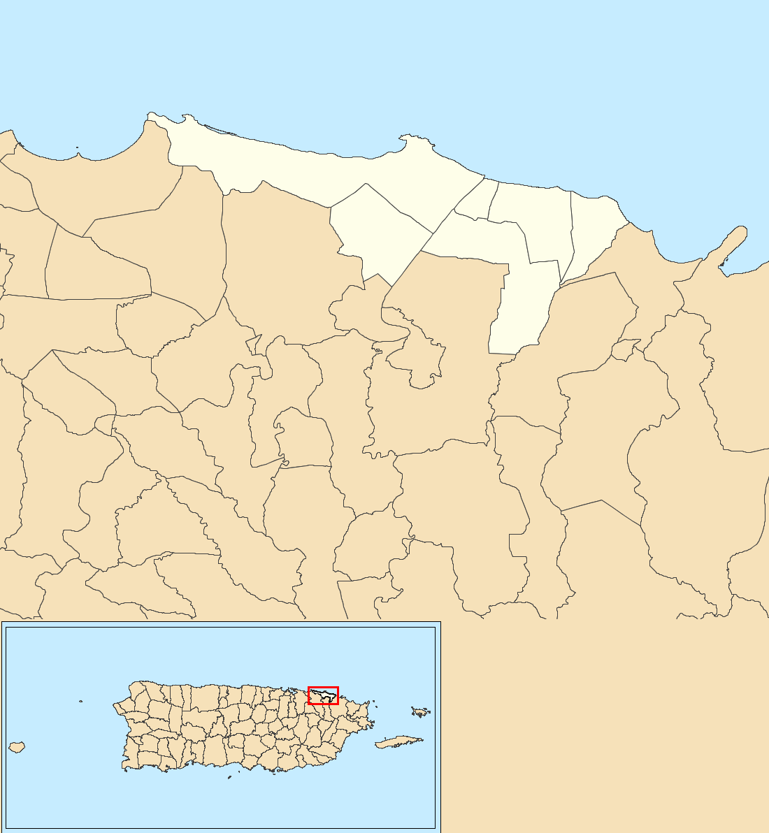 Barrios in the municipality. Map scale is 1:200,000